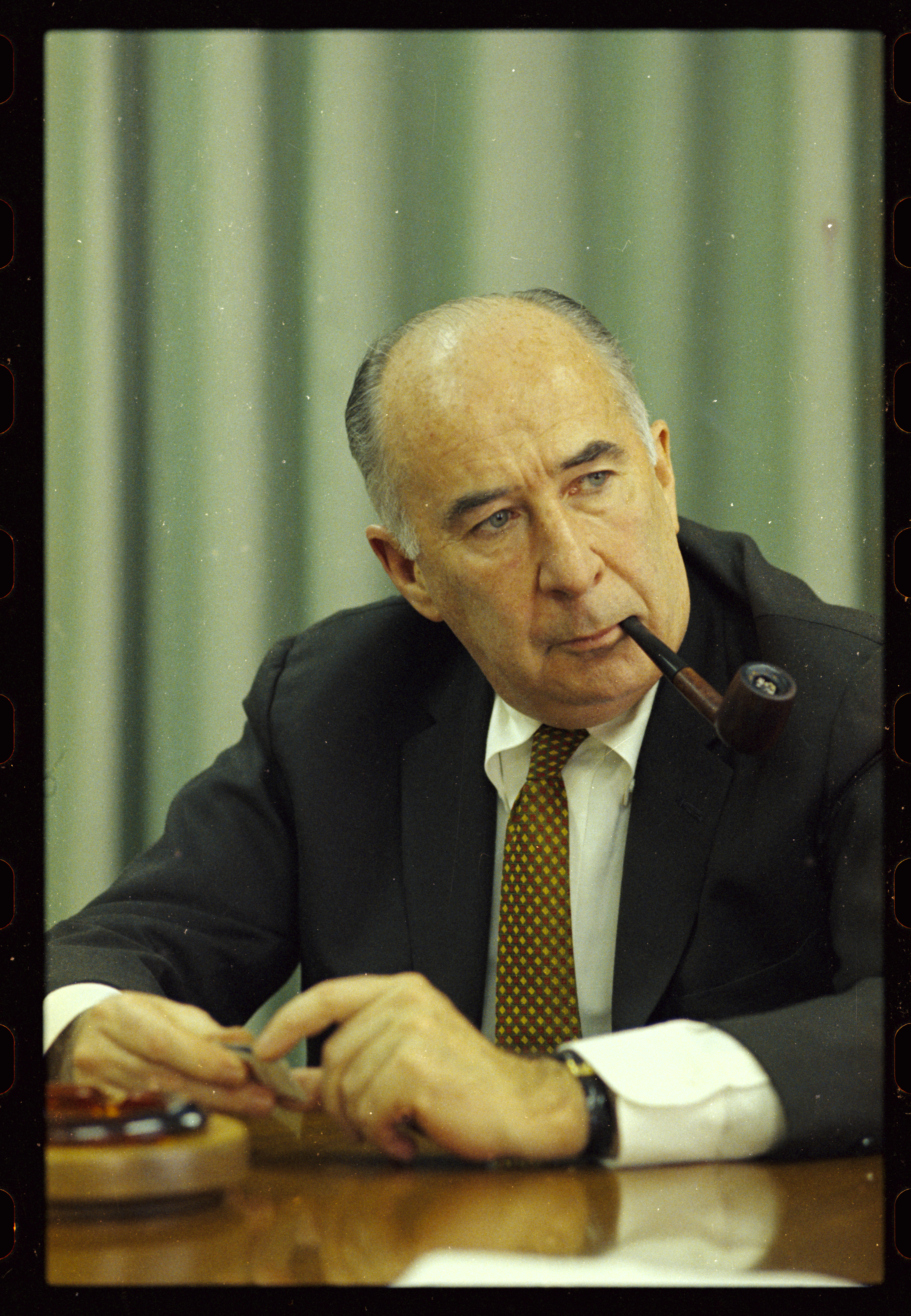 U.S. Attorney General John N. Mitchell